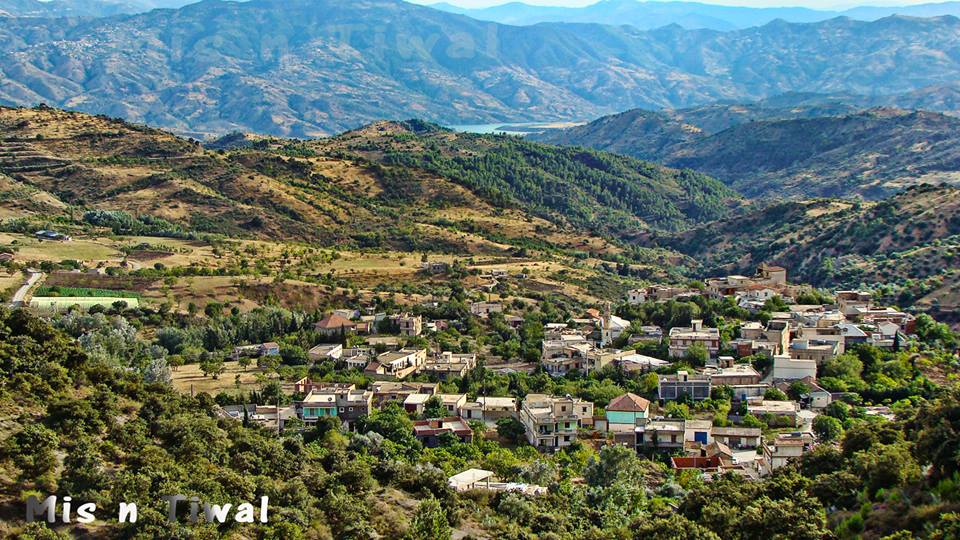 Village Tiwal, Beni Maouche, Bejaia, Algeria